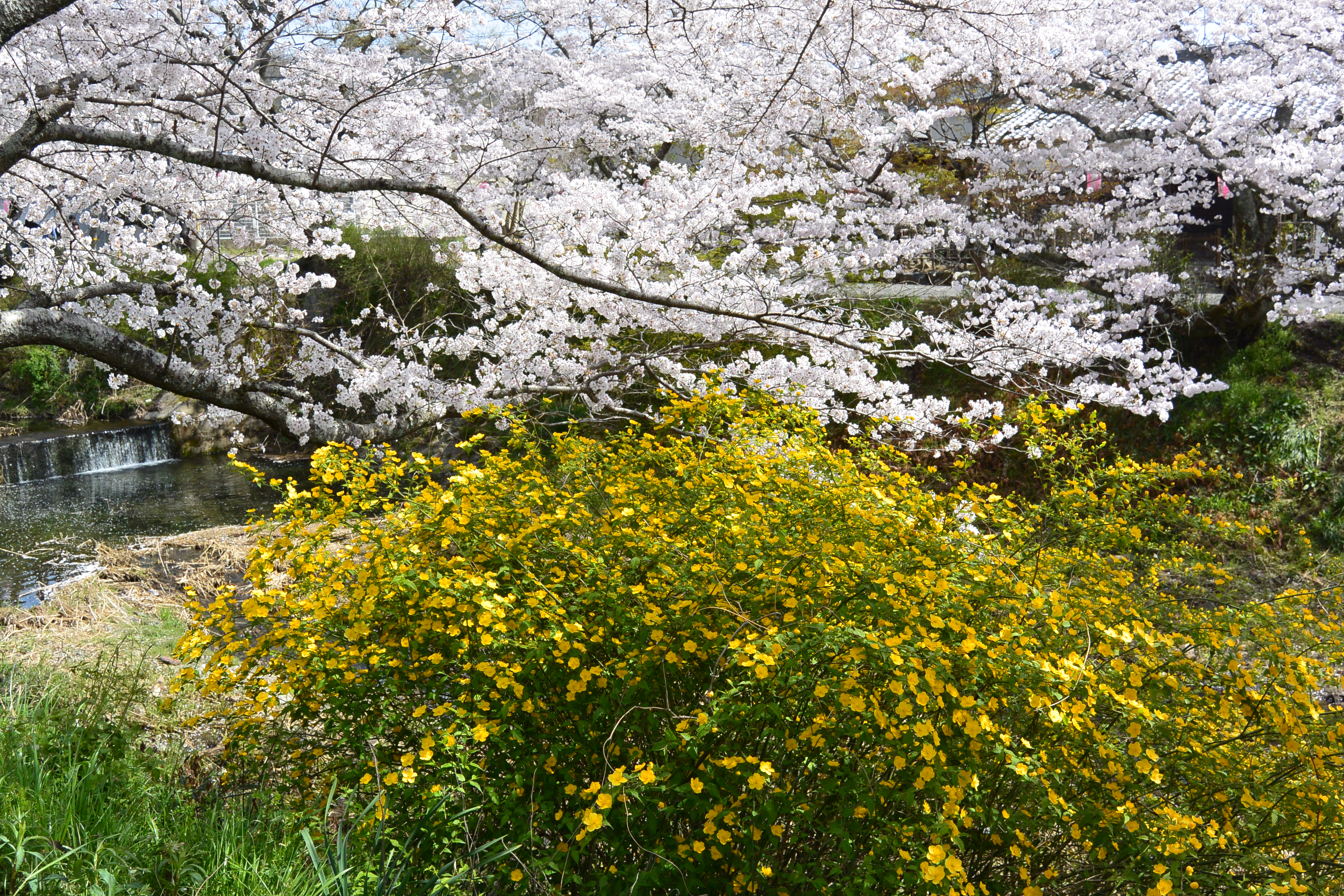 Kerria japonica is the Town flower of Idecho